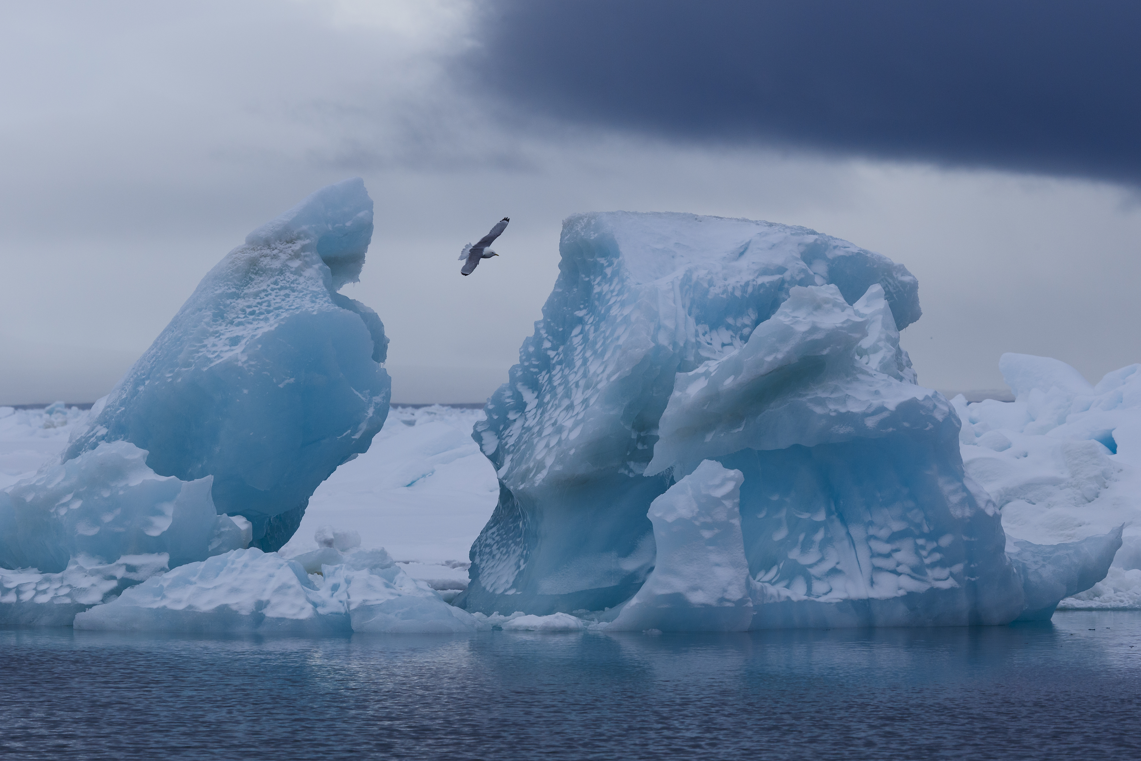 Iceberg at Franz-Josef Land Reserve, Arkhangelsk Oblast, Russia